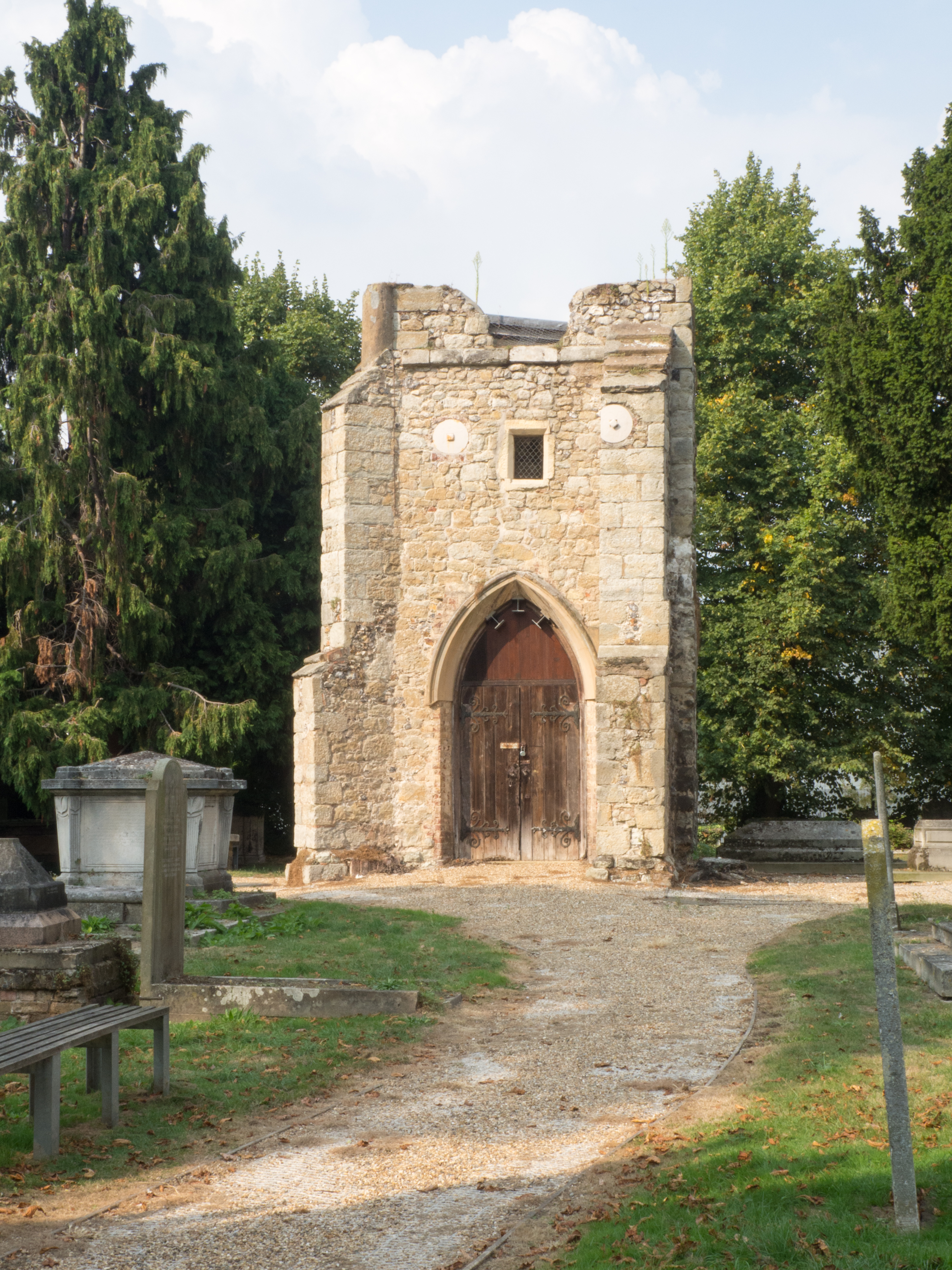 Ruined late Medieval tower of the the former parish church of St Margaret, Lee Terrace, southeast London (formerly Kent), seen from the south